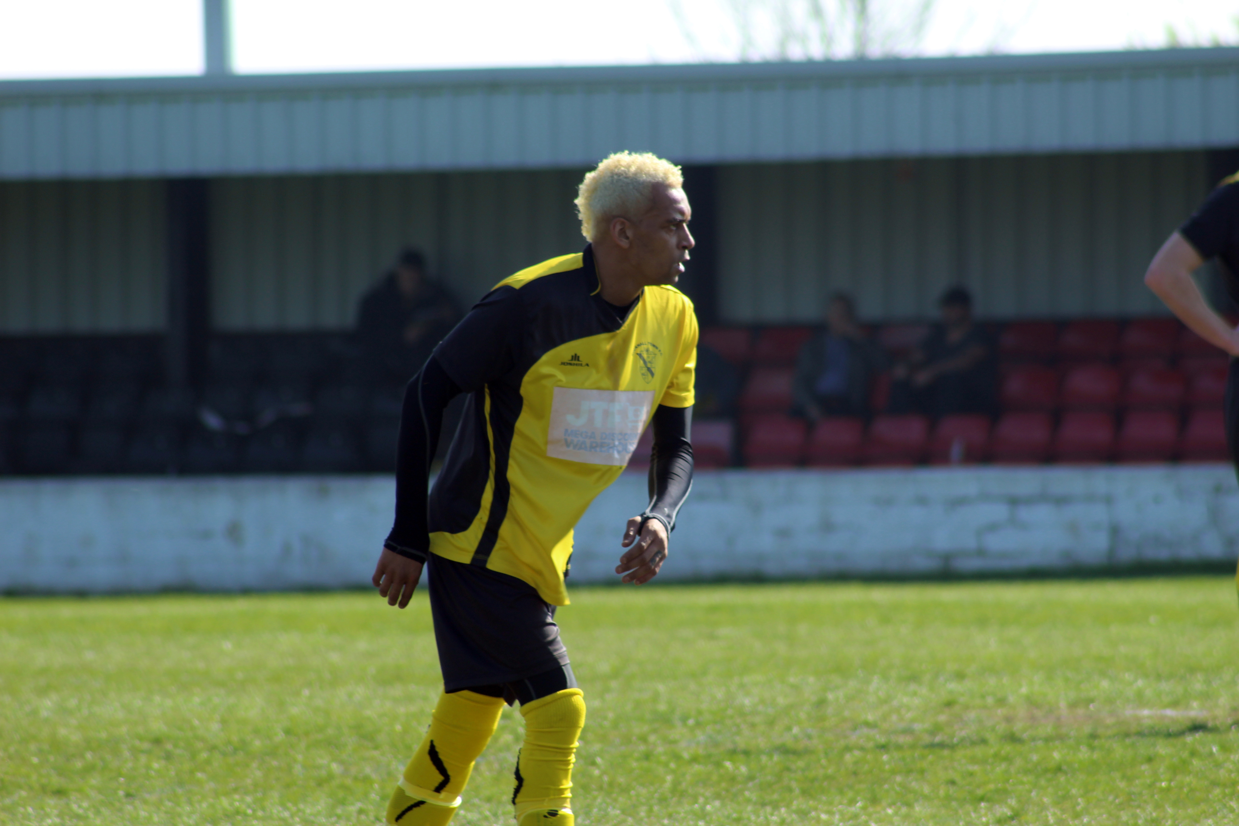 Jaylee Hodgson playing for Hucknall Town vs Southwell City 2017